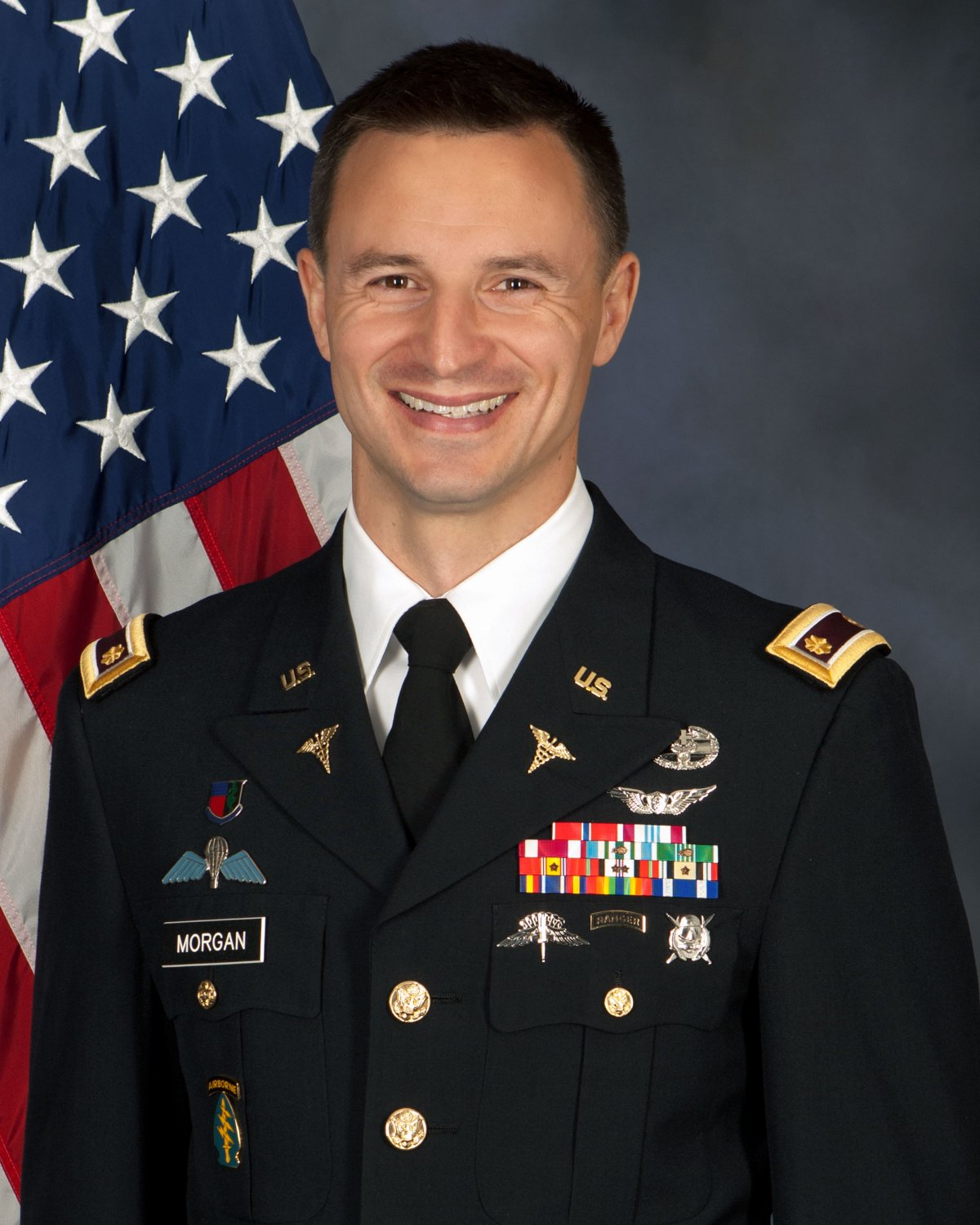 Andrew R. Morgan of New Castle, Pennsylvania has been selected as a member of NASA's 2013 Astronaut Candidate Class. Photo Credit: NASA